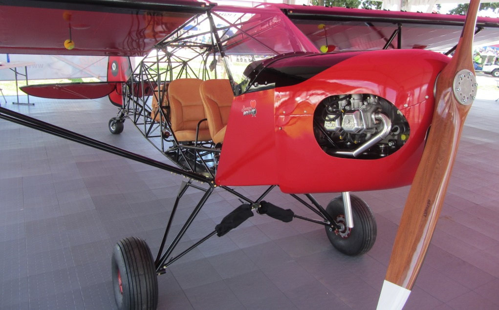 Zlin Savage Bopper